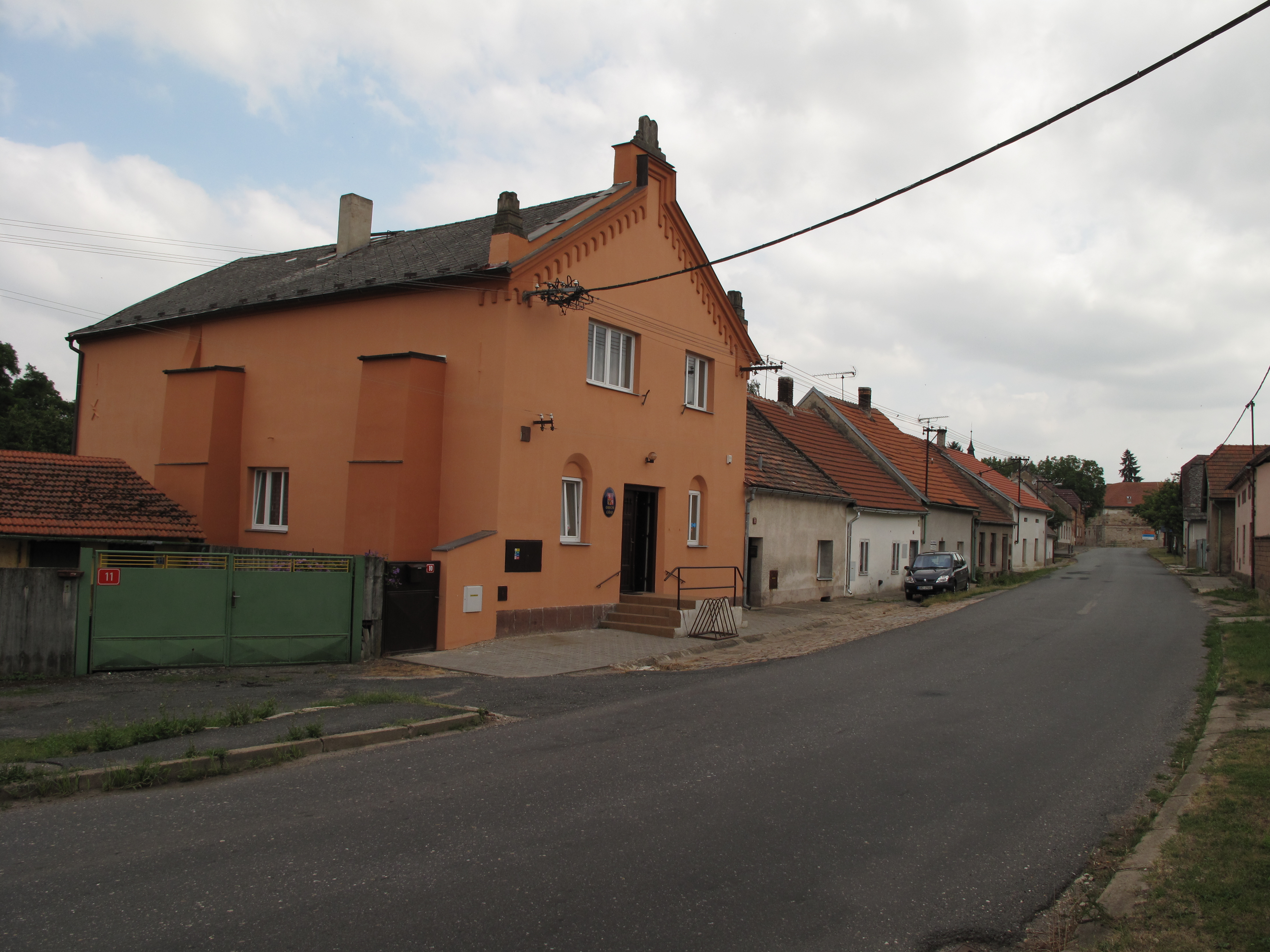 This photograph was taken within the scope of the second year of the 'Czech Municipalities Photographs' grant.